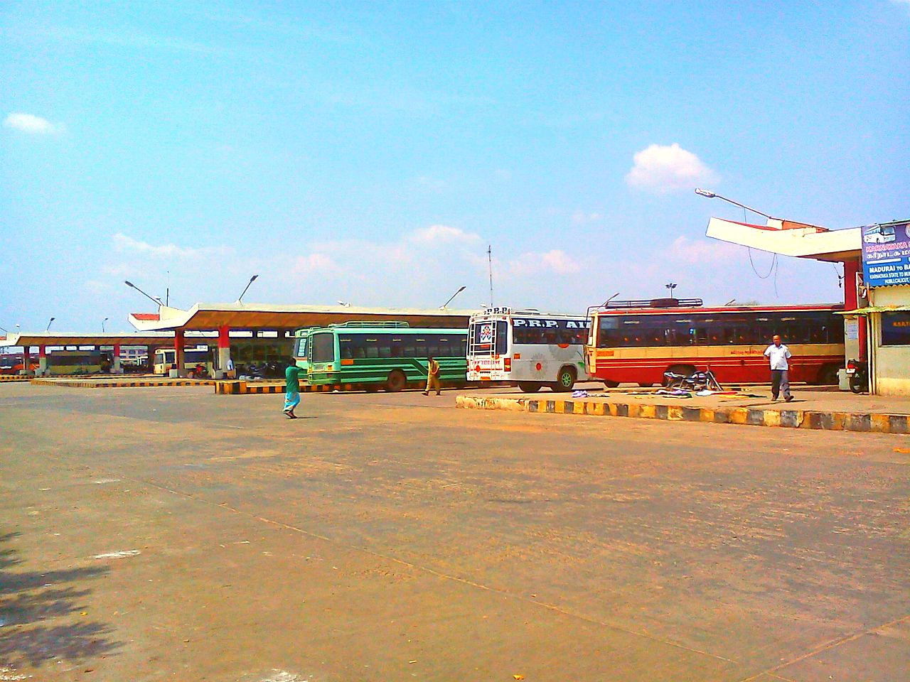 Madurai Main Bus Stand